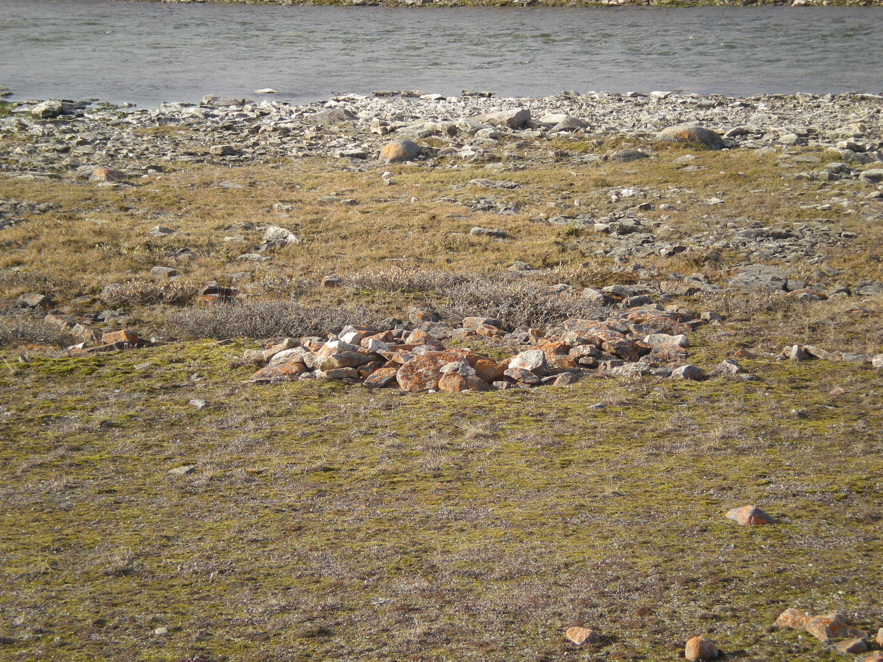 A Thule culture food cache near Cambridge Bay, Nunavut Canada.